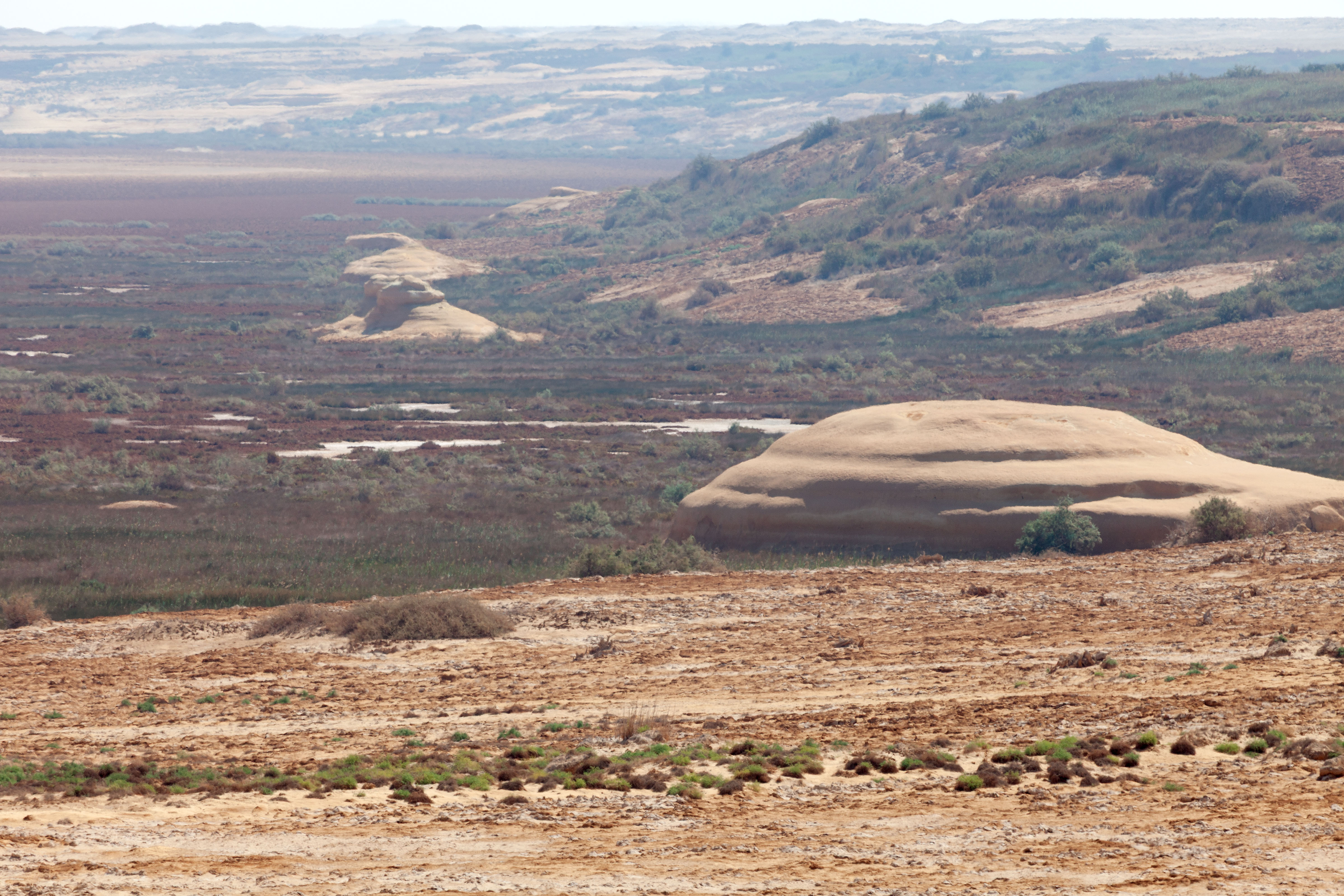 Landscaüpe at Tabaghbagh, Siwa, Egypt